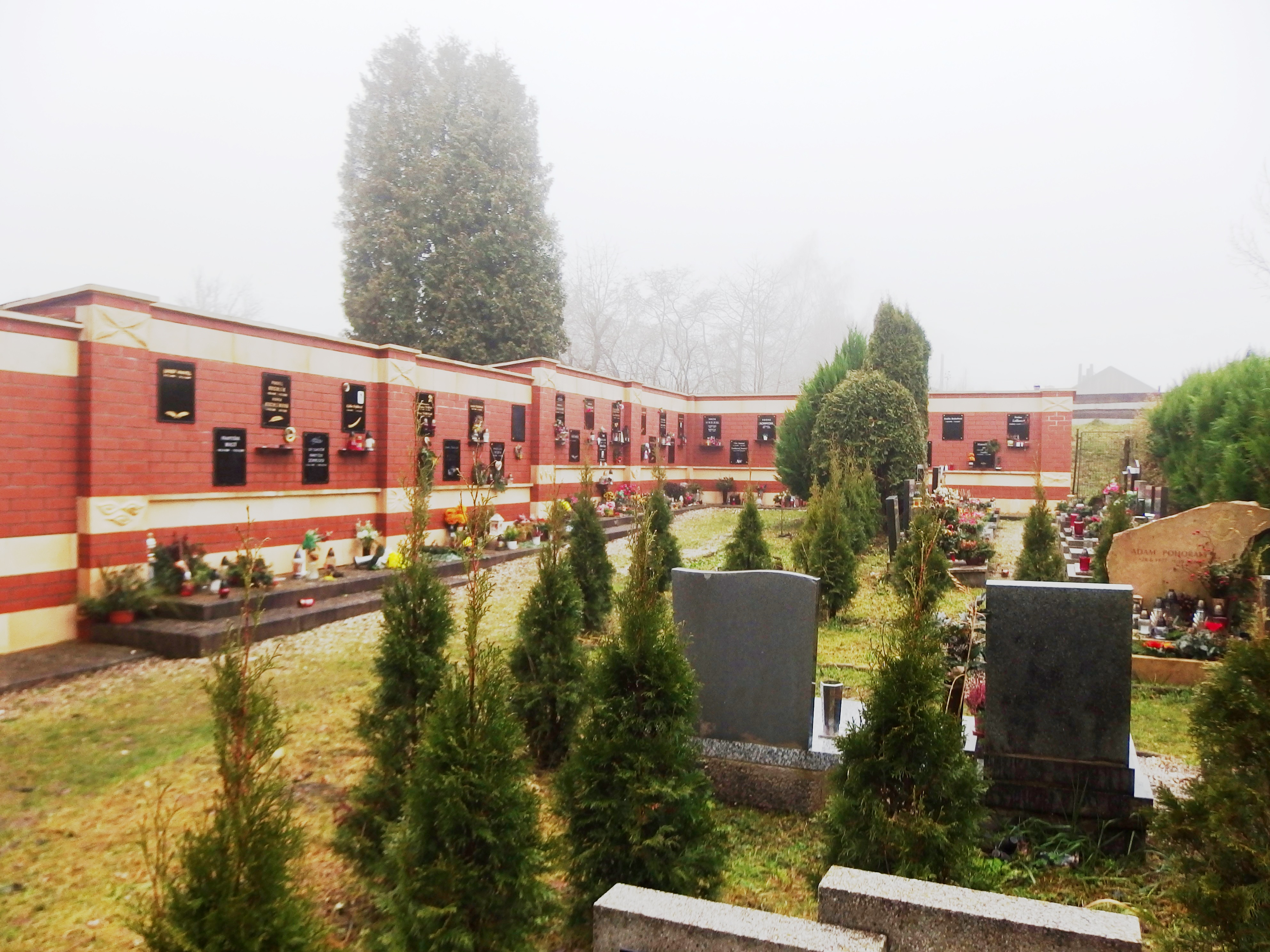 Jilemnice, Semily District, Czech Republic.